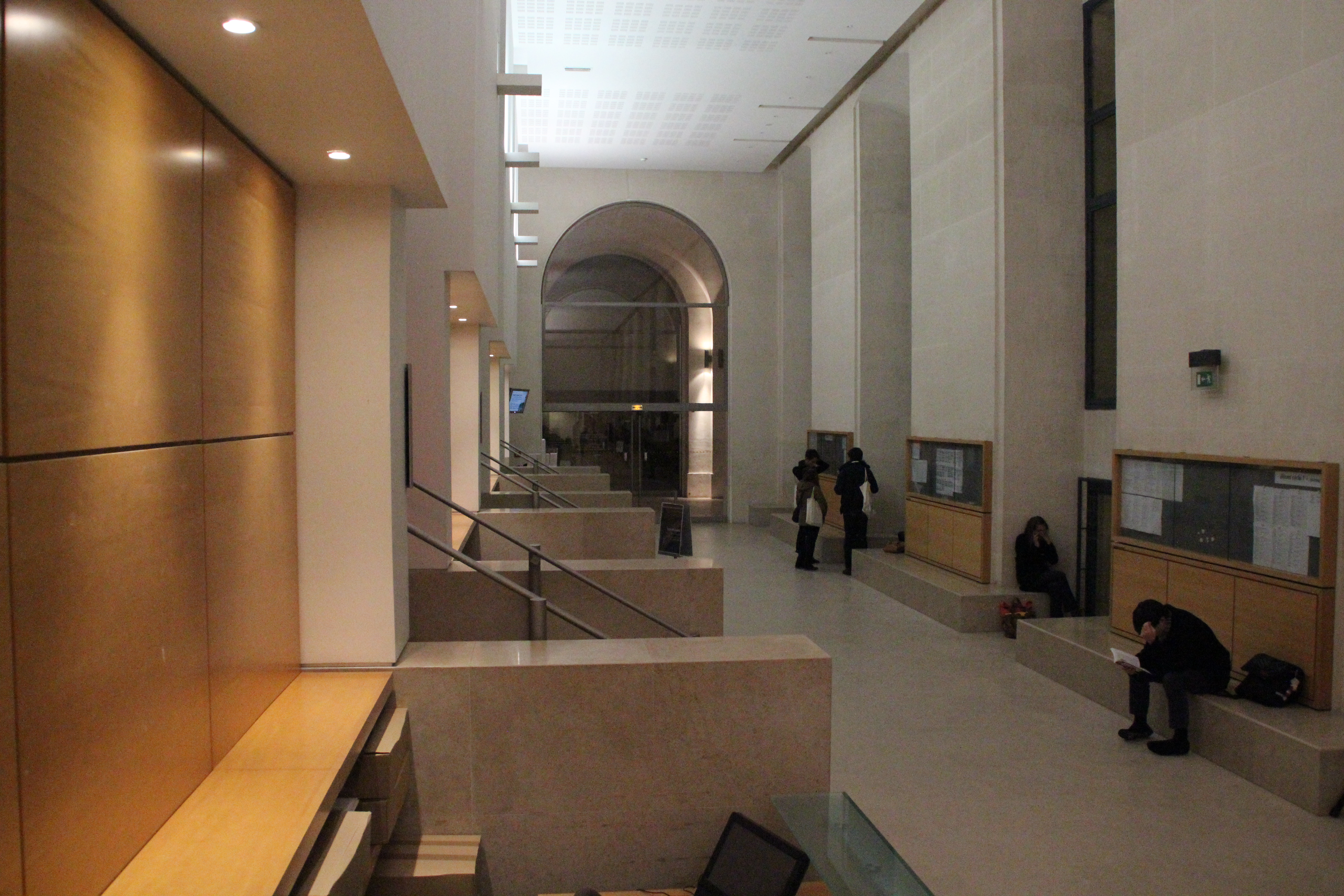 Great hall of the Ecole du Louvre (school of the Louvre) in Paris, France